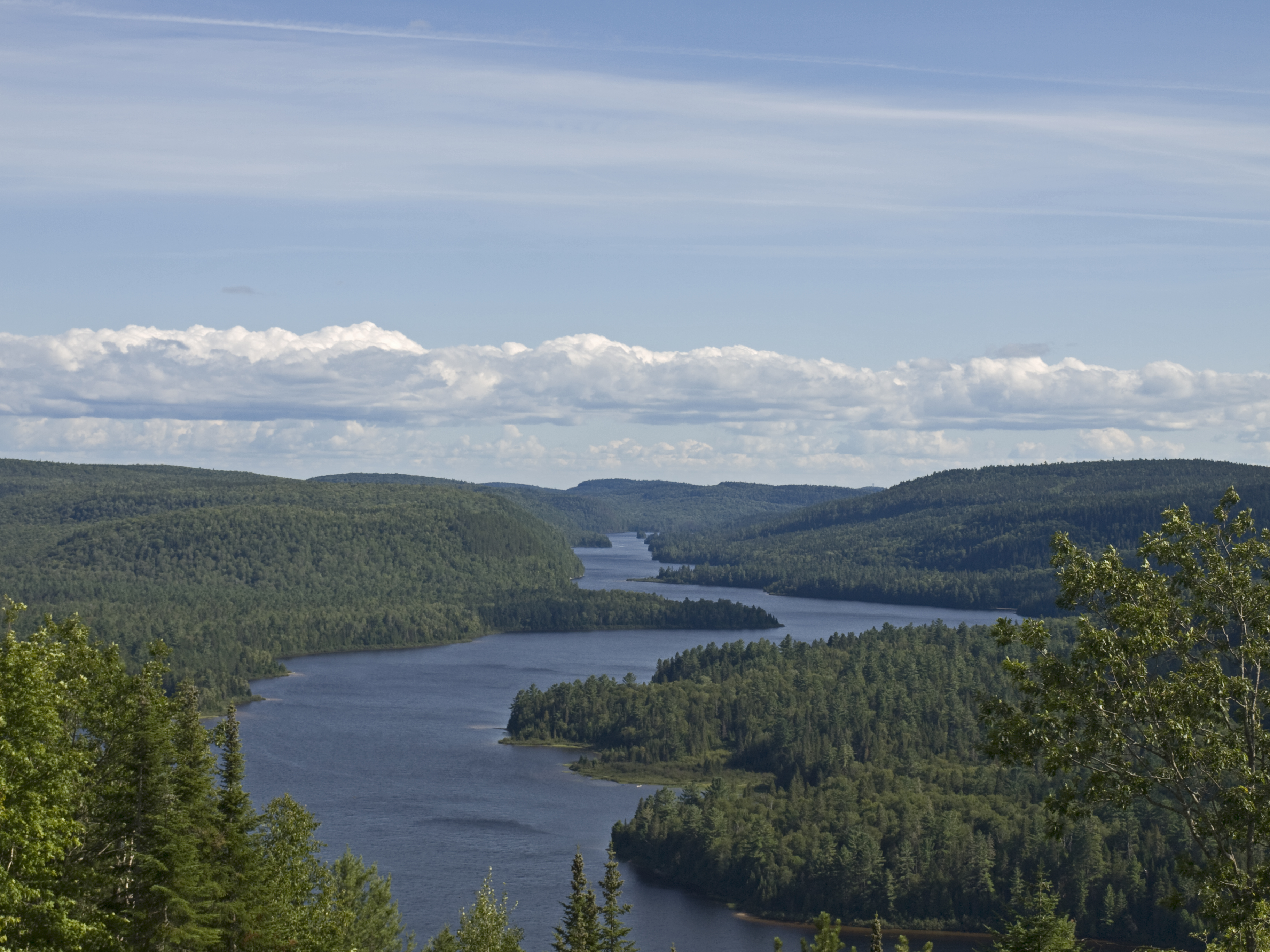 Wapizagonke Lake seen from the northern end (Le Passage)